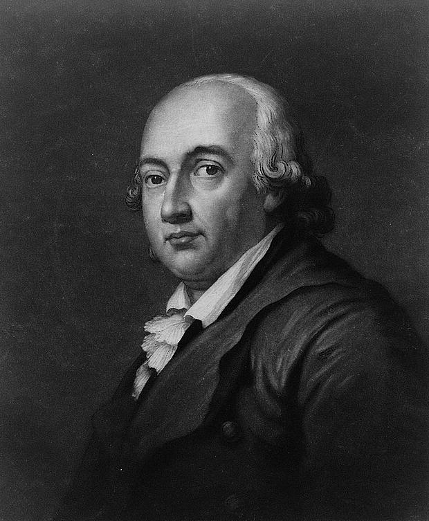 German poet, critic, theologian and philosopher Johann Gottfried Herder (1744-1803) by John Sartain (1808-1897). Mezzotint.